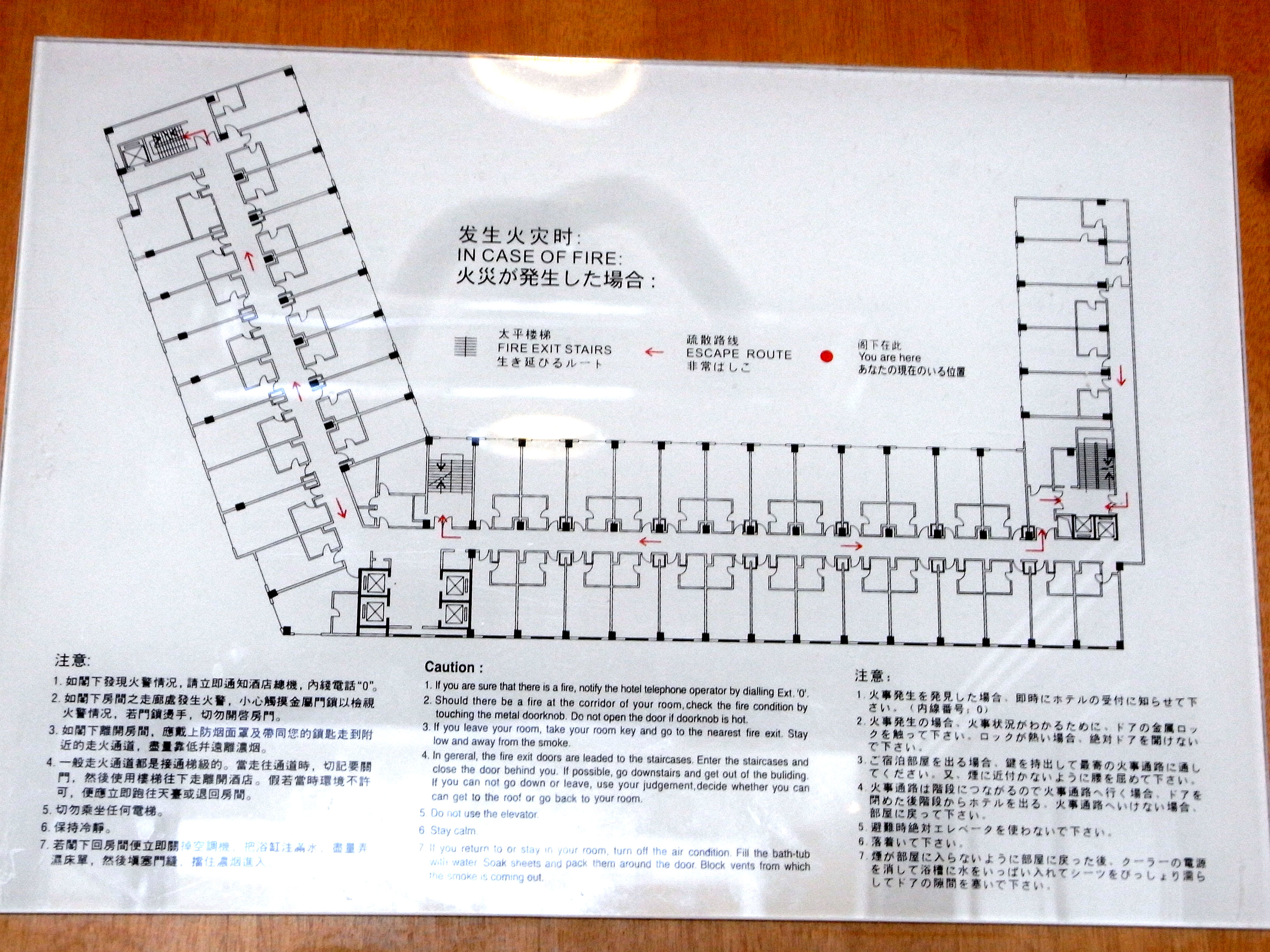 廣東 東莞太子酒店